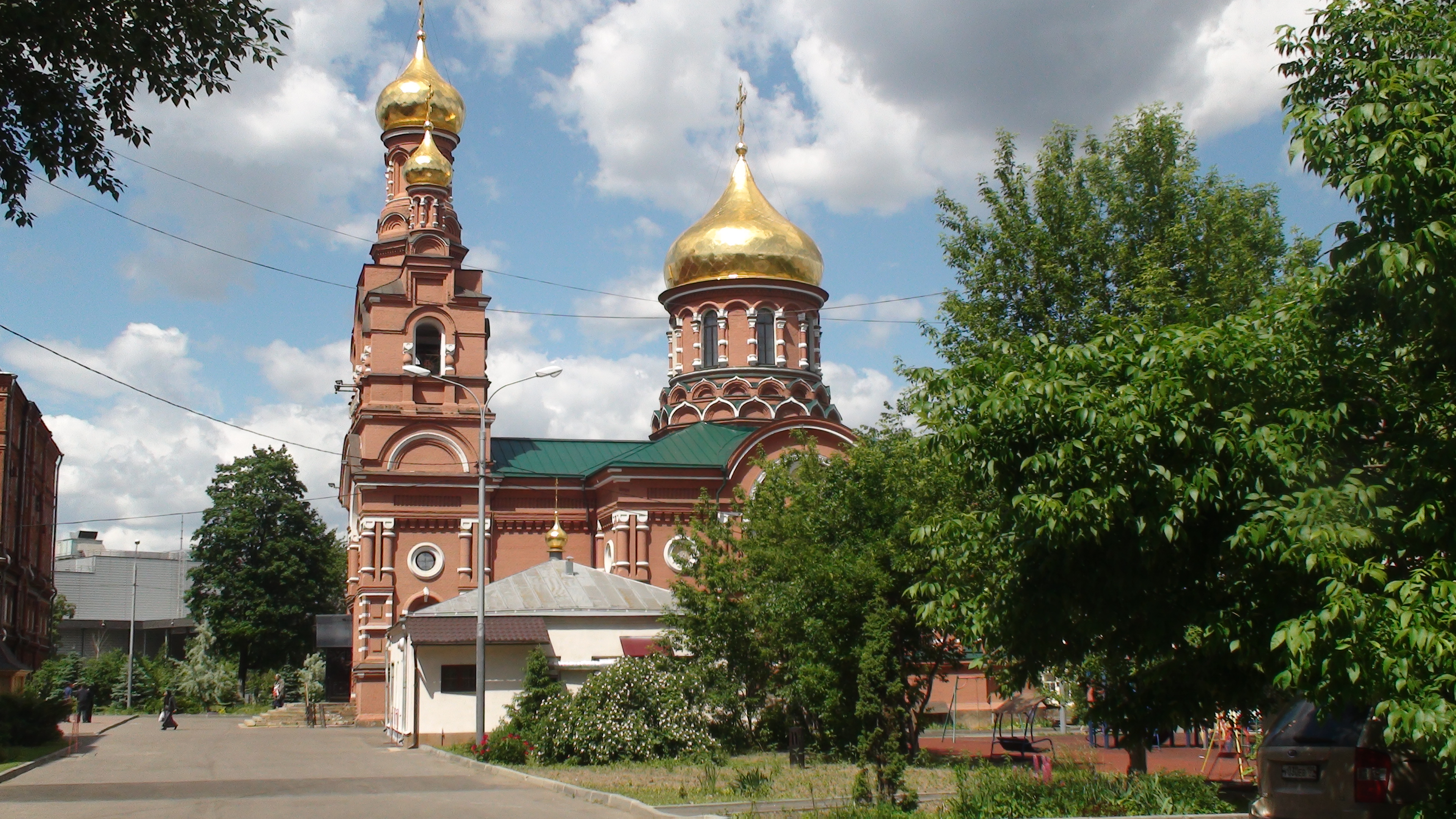 Novo-Alekseevsky convent